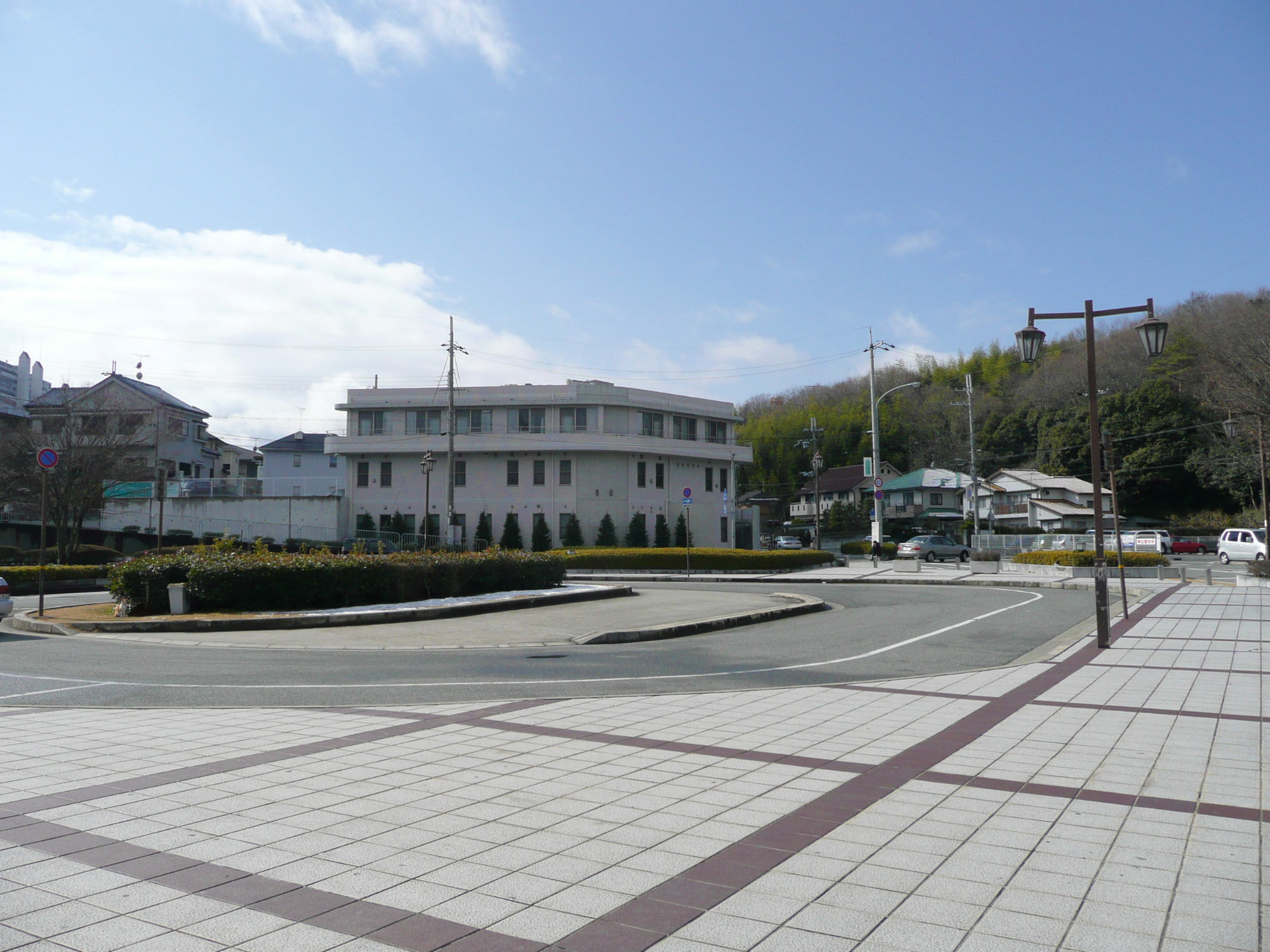 Kobe Electric Railway Taoji Station east side